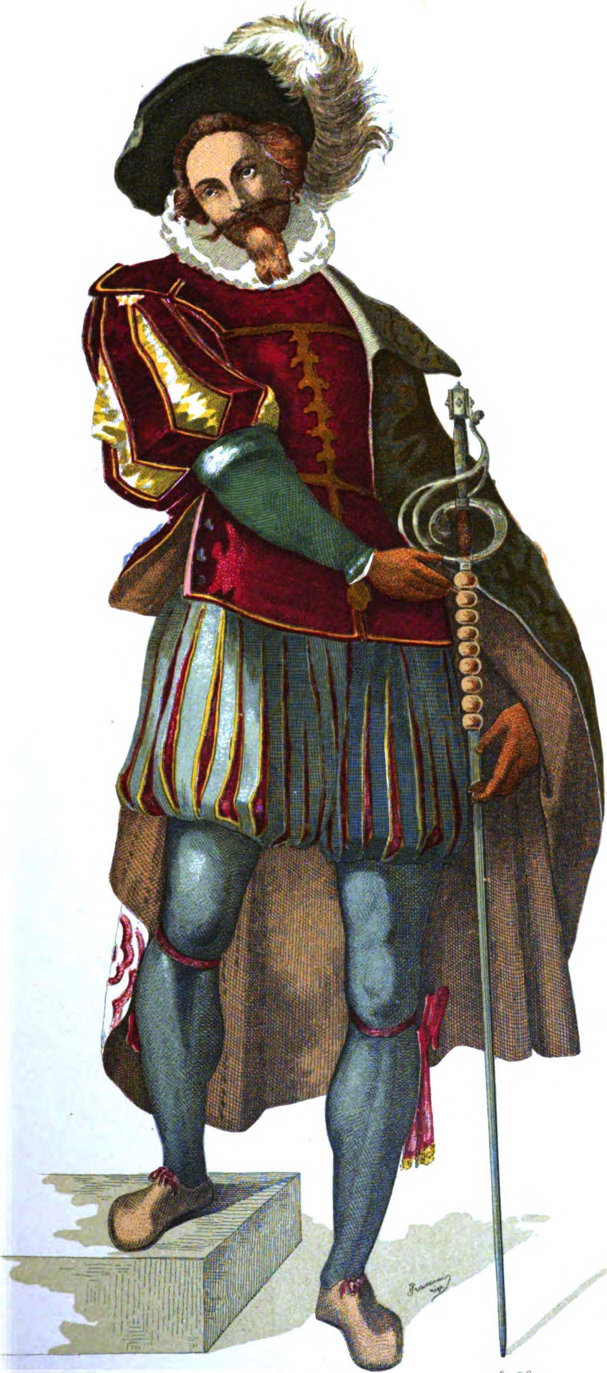 Nineteenth-century illustration interpreting Poccetti's c. 1607 fresco showing Francesco Andreini in his costume as Capitano Spavento. The portrait is a detail from a fresco lunette in the Great Cloister of the church of Santissima Annunziata, Florence.